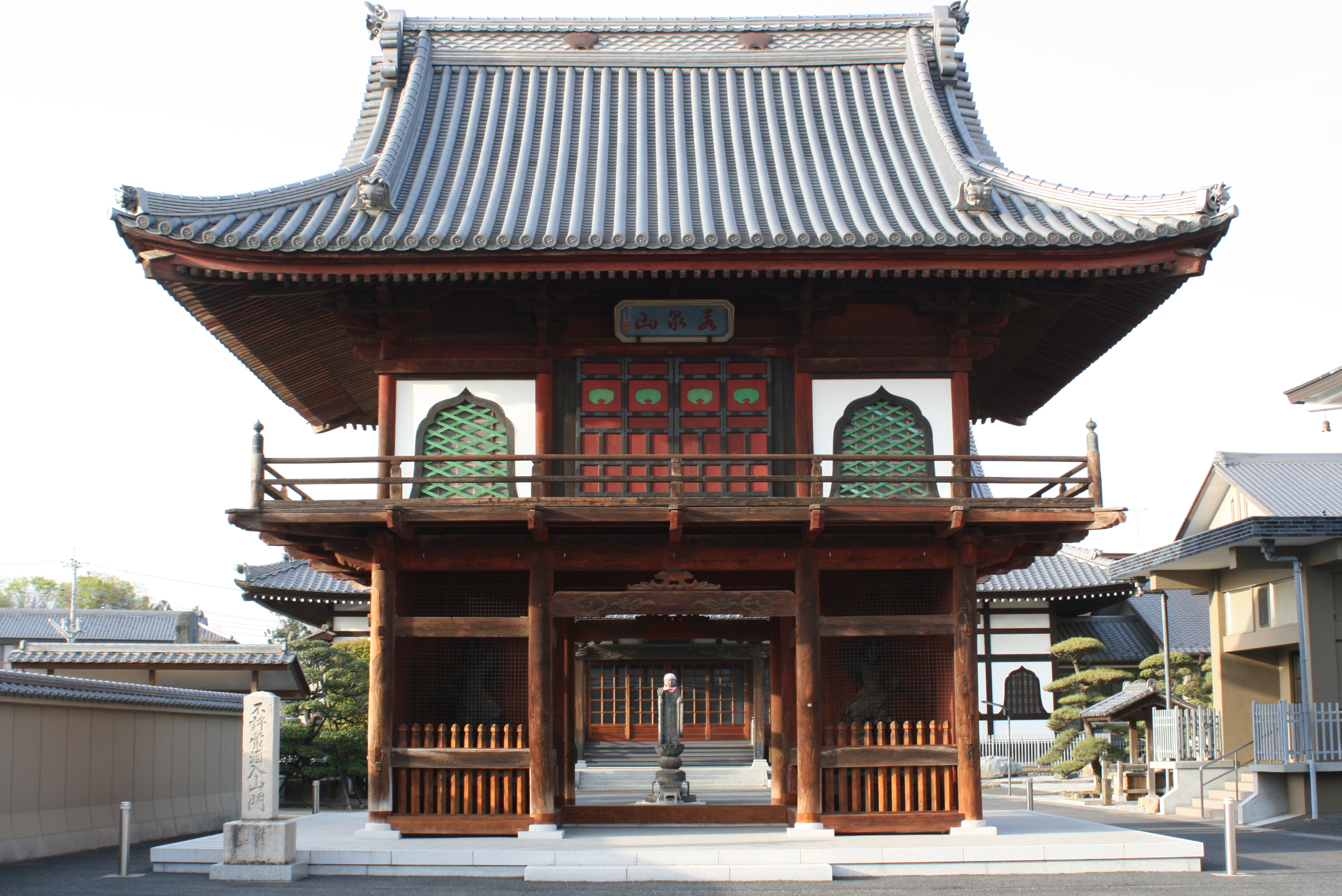 Main gate of An'youin Temple in Honjo, Saitama pref. JAPAN